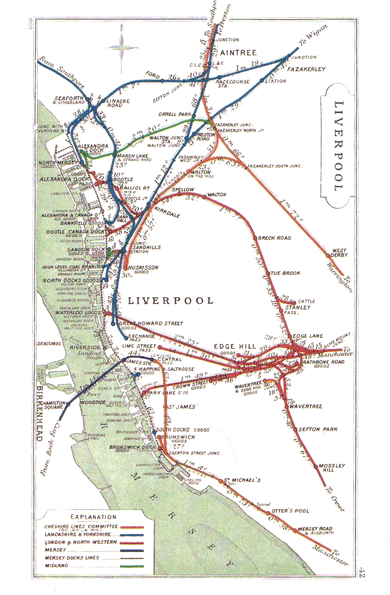 Railway junctions around Liverpool